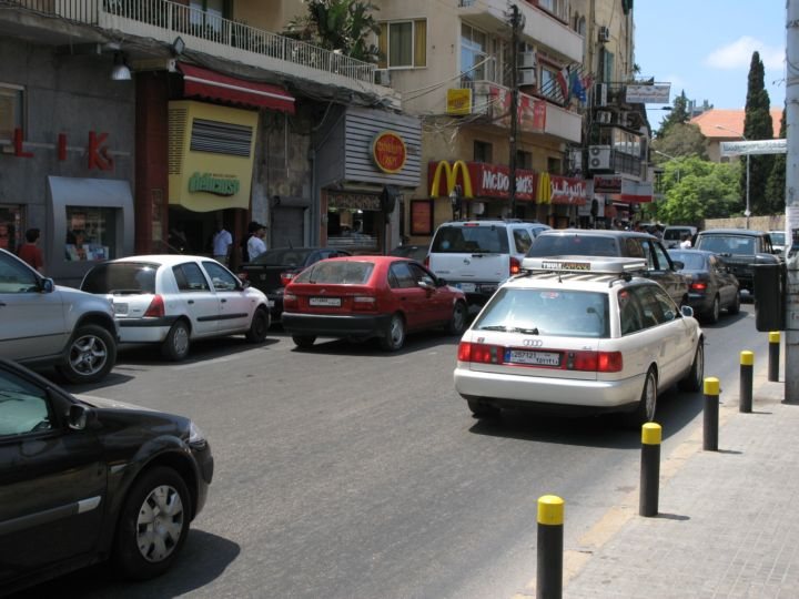 food on bliss